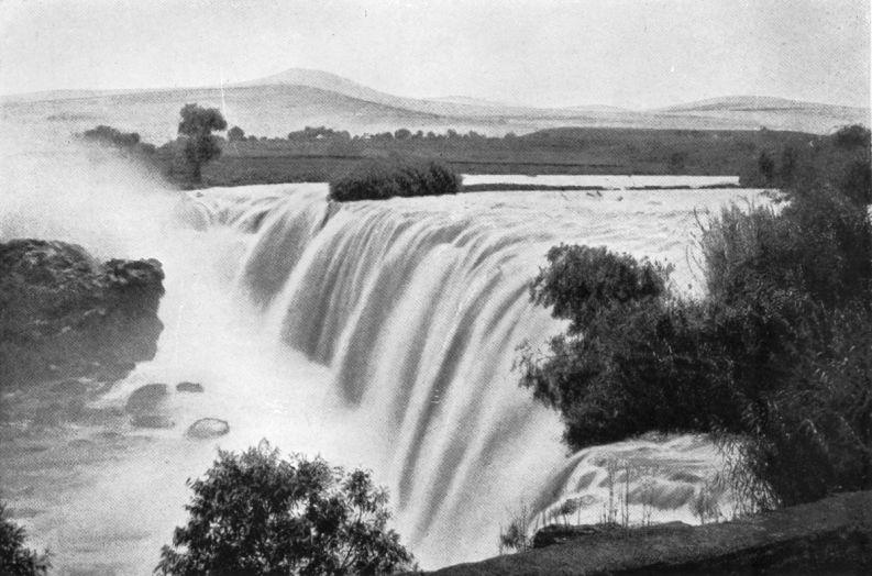 Juanacatlán Falls (circa 1909) — near Juanacatlán, Jalisco state, México. Known as "The Niagara of Mexico."